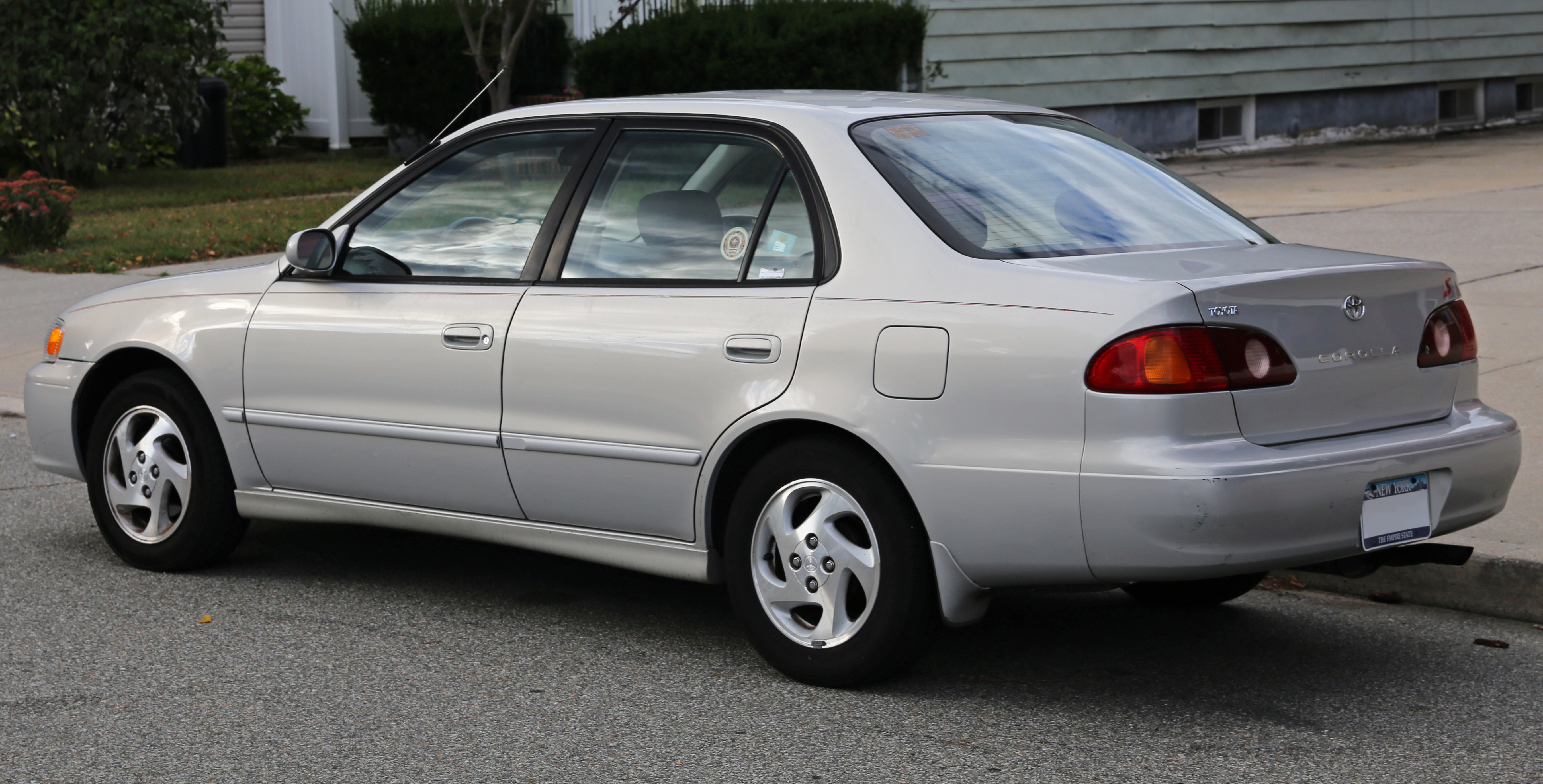 2001 Toyota Corolla S. Built in Cambridge, Ontario, this mildly sporting model has the 1.8 litre VVT 1ZZ-FE engine with 125hp.